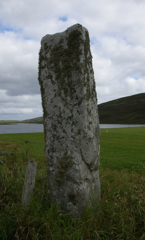 Tingwall Standing Stone, Tingwall, Shetland, Scotland